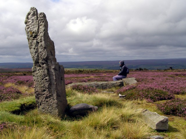 The High Bridestones, Sleights Moor On the left is the tallest of the intact standing stones at the High Bridestones site on Sleights Moor. There are several fallen megaliths nearby, and others scattered around the area. A little further to the north-west is another set of standing stones known as the Low Bridestones. There are some more famous High and Low Bridestones elsewhere in the North York Moors national park, in gridsquare SE8791 - however those Bridestones are natural rock formations. The locally popular name of "Bridestones" may come from the Norse for being on the brink (edge). There are local legends that explain the stones as petrified bridal parties lost in the mists that hang on the moors. For some reason other visitors have felt the need to hammer coins into the natural cracks in the tallest standing stone.